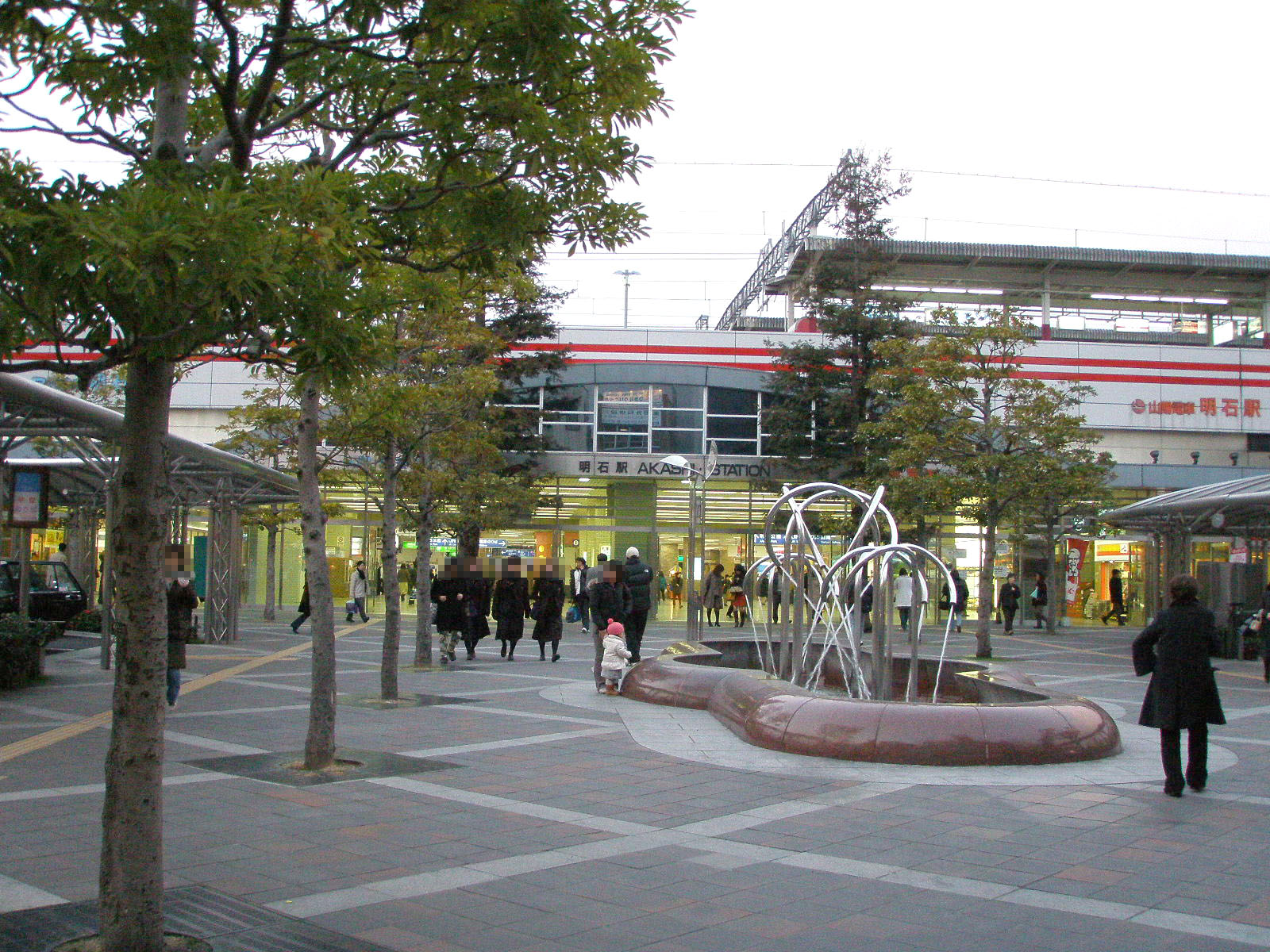 West Japan Railway Sanyō Main Line（JR Kōbe Line） Akashi Station Building South Gate